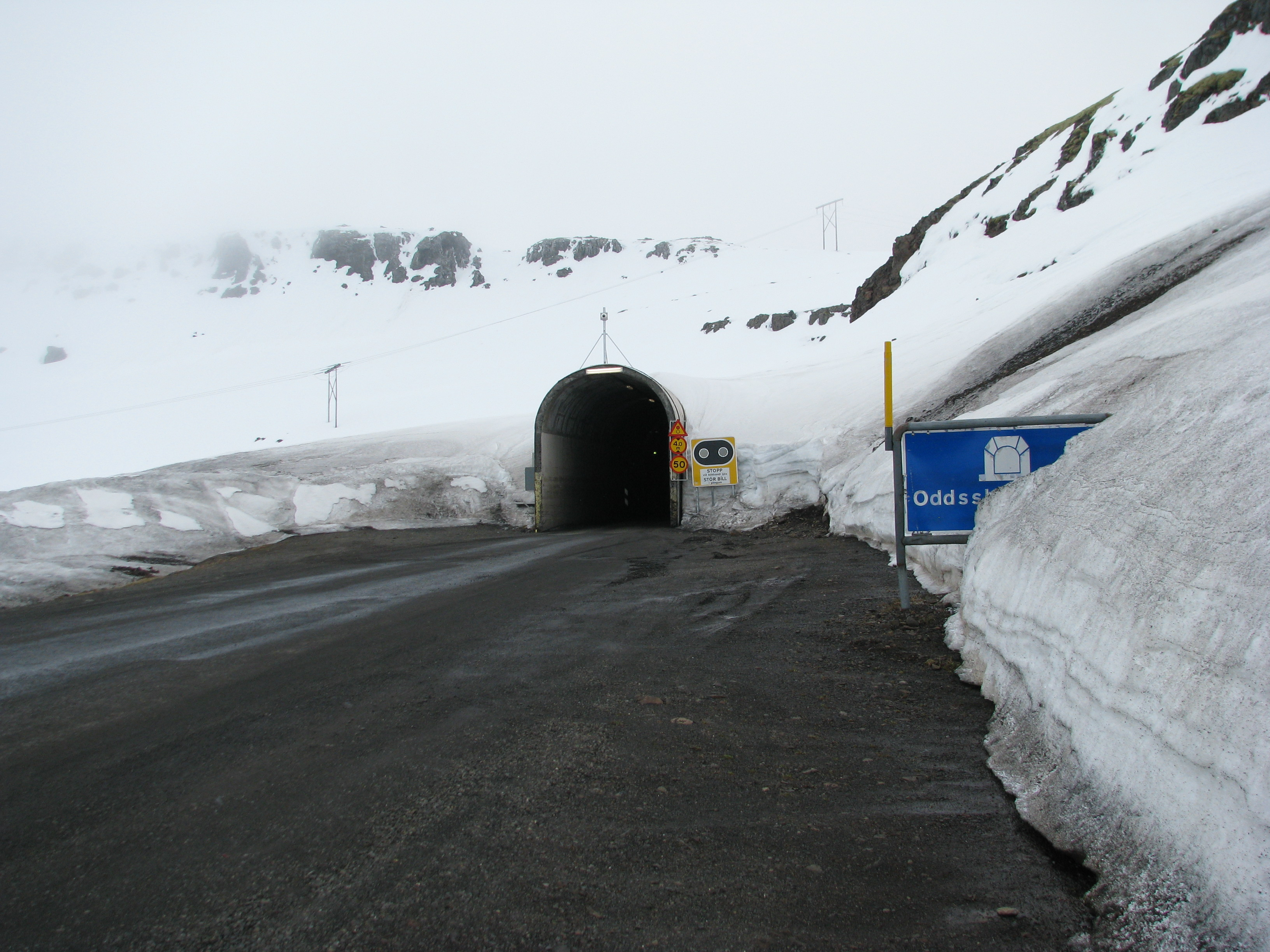 The northern entrance of the Oddsskarð tunnel, Eastern-Iceland.